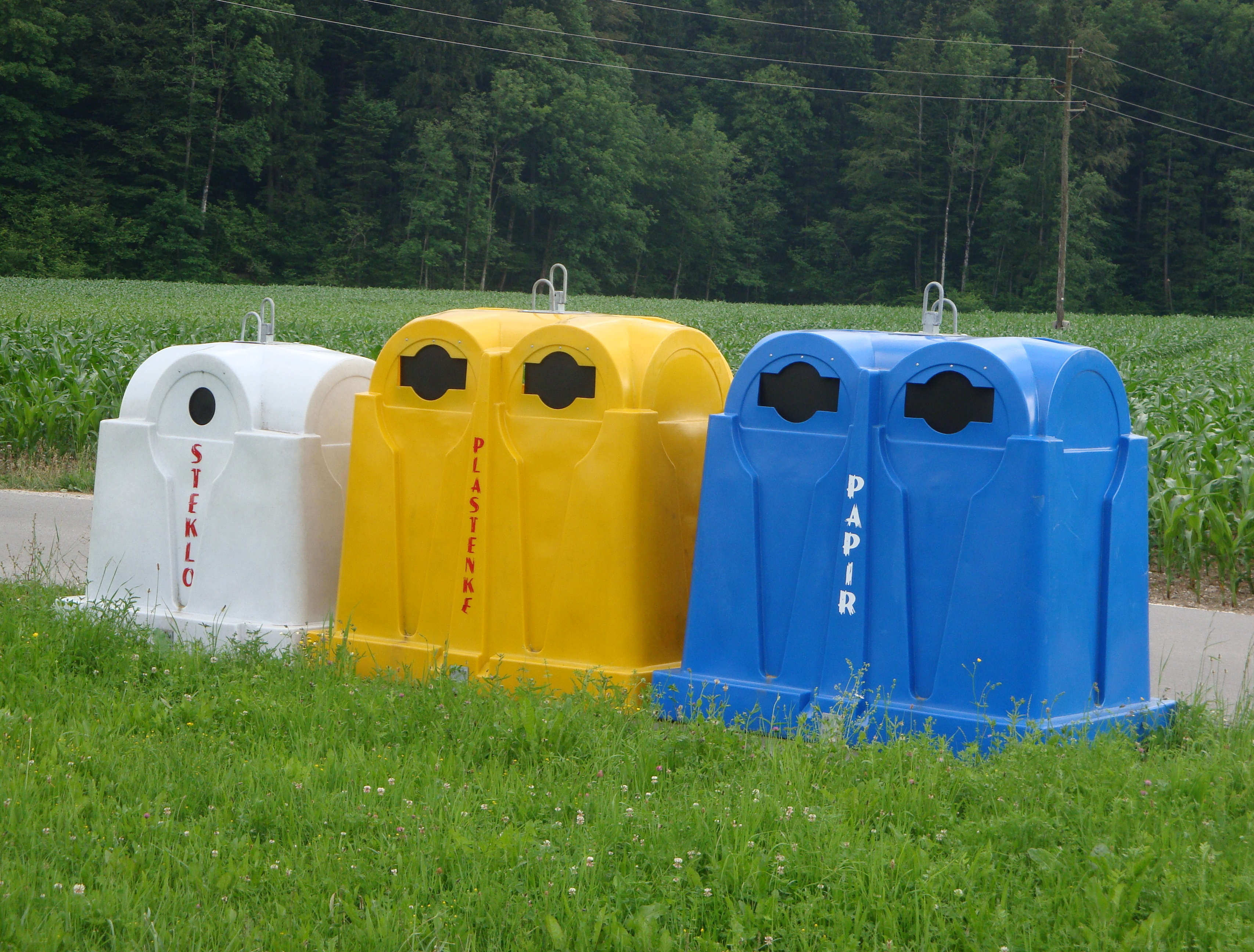 Eko trash can, Slovenia